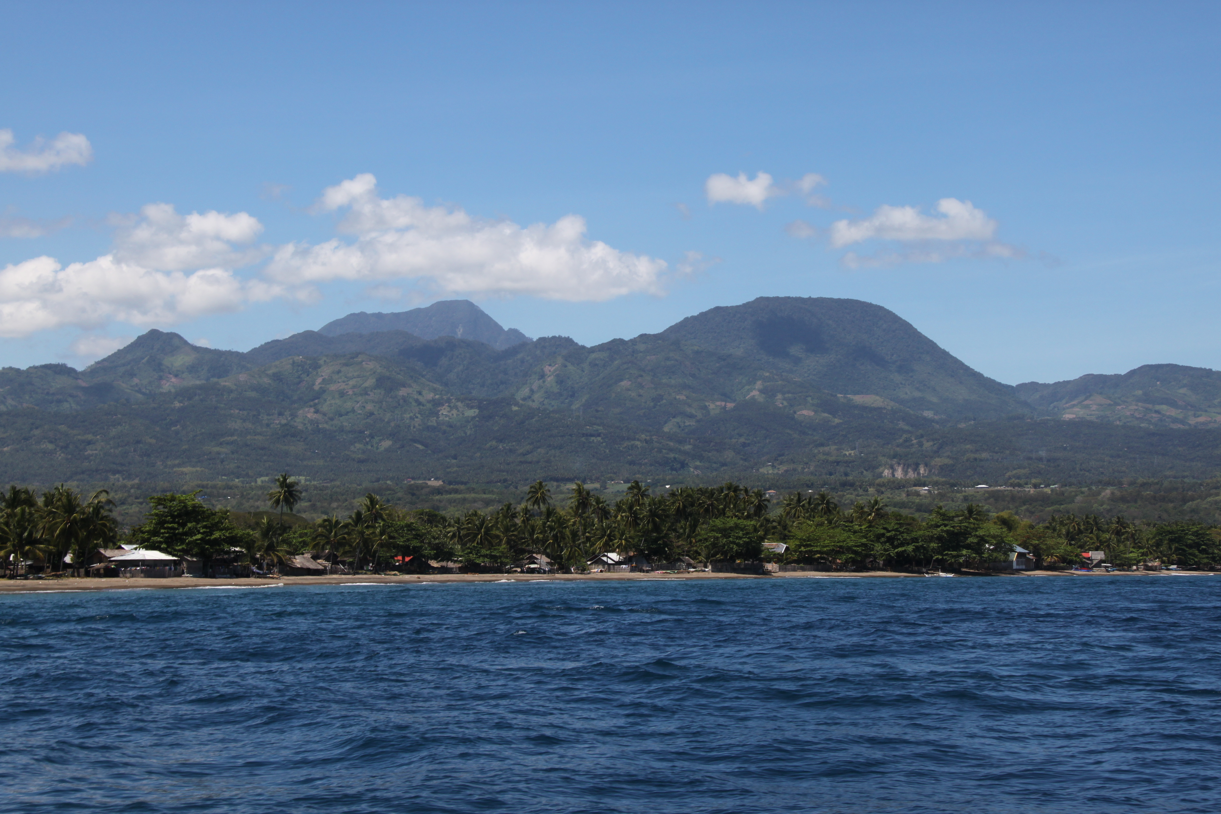 Going from Sibulan Port, Negros Oriental, to Santander Port, Cebu Island, Philippines. Looking toward Talinis Mountain.